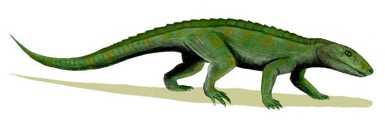 Notosuchus terrestris, a notosuchian crocodylomorph from the Upper Cretaceous of South America, pencil drawing.